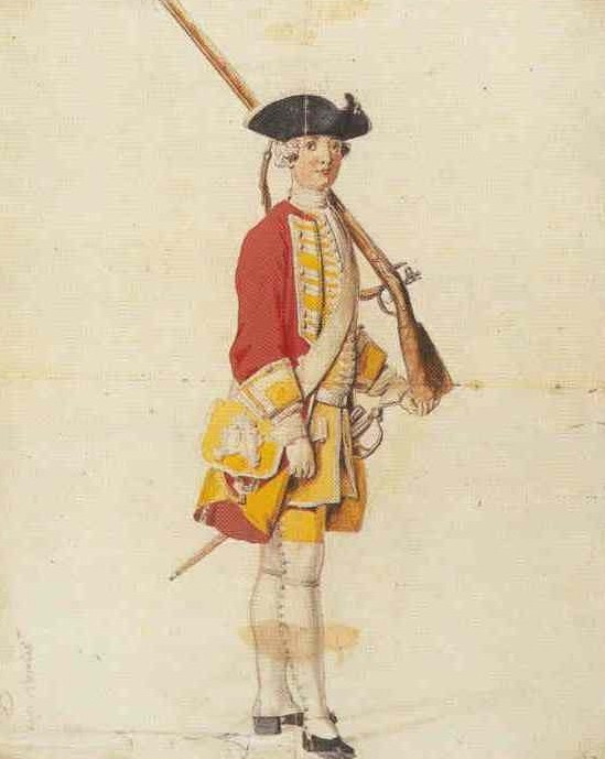 saxony - a soldier of frederick August the Strong